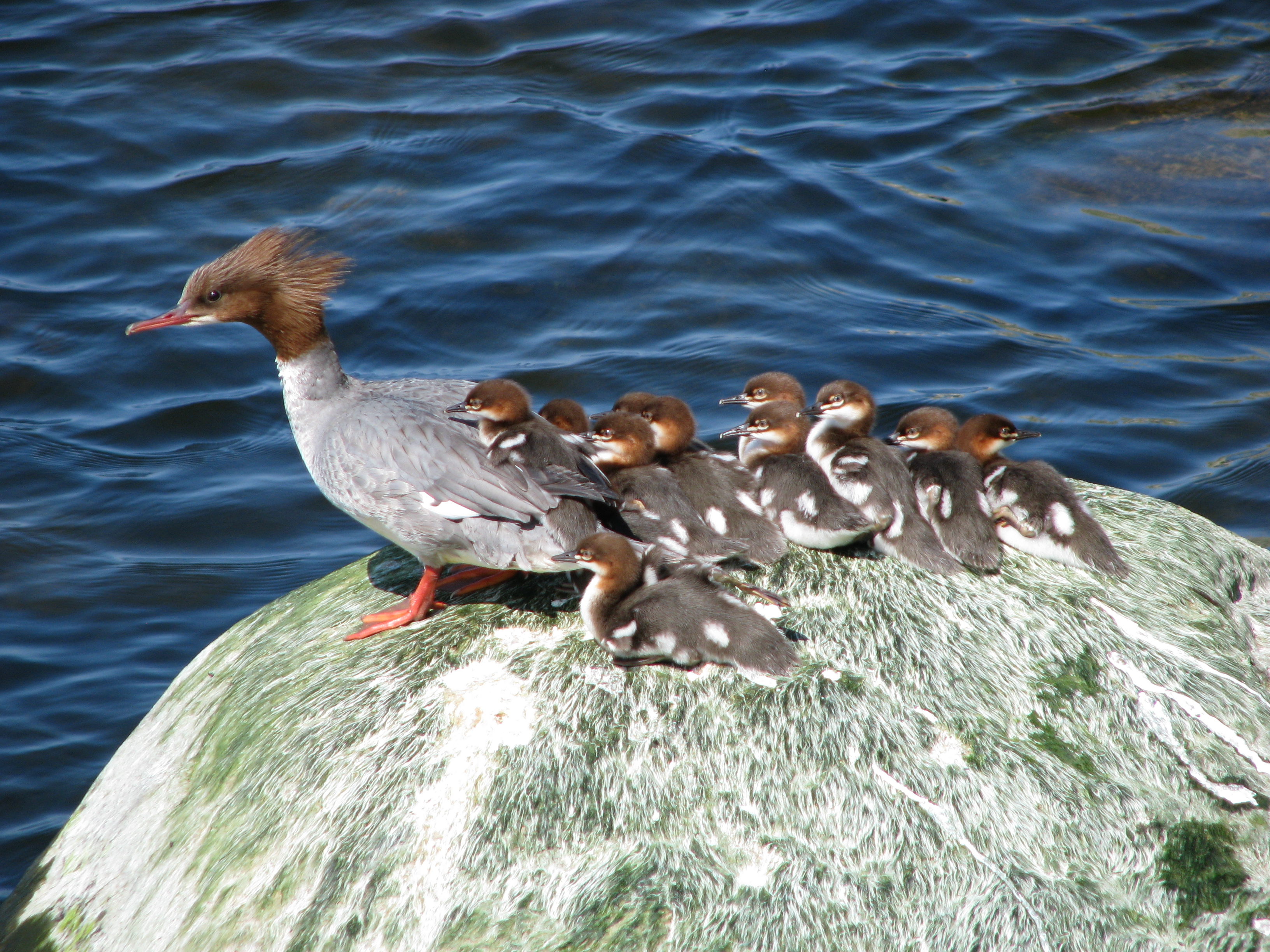 Mergus merganser at protected area Daugavgrīva. Riga, Latvia